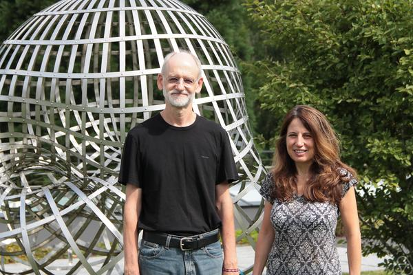 Description at MFO: On the Photo: * Ulrich, Bernd (left) * Polini, Claudia (right) * Occasion:Research in Pairs 2016 * Location: Oberwolfach * Author: Lein, Petra (photos provided by Lein, Petra) * Source: MFO * Year: 2016 * Copyright: MFO * Photo ID: 21136